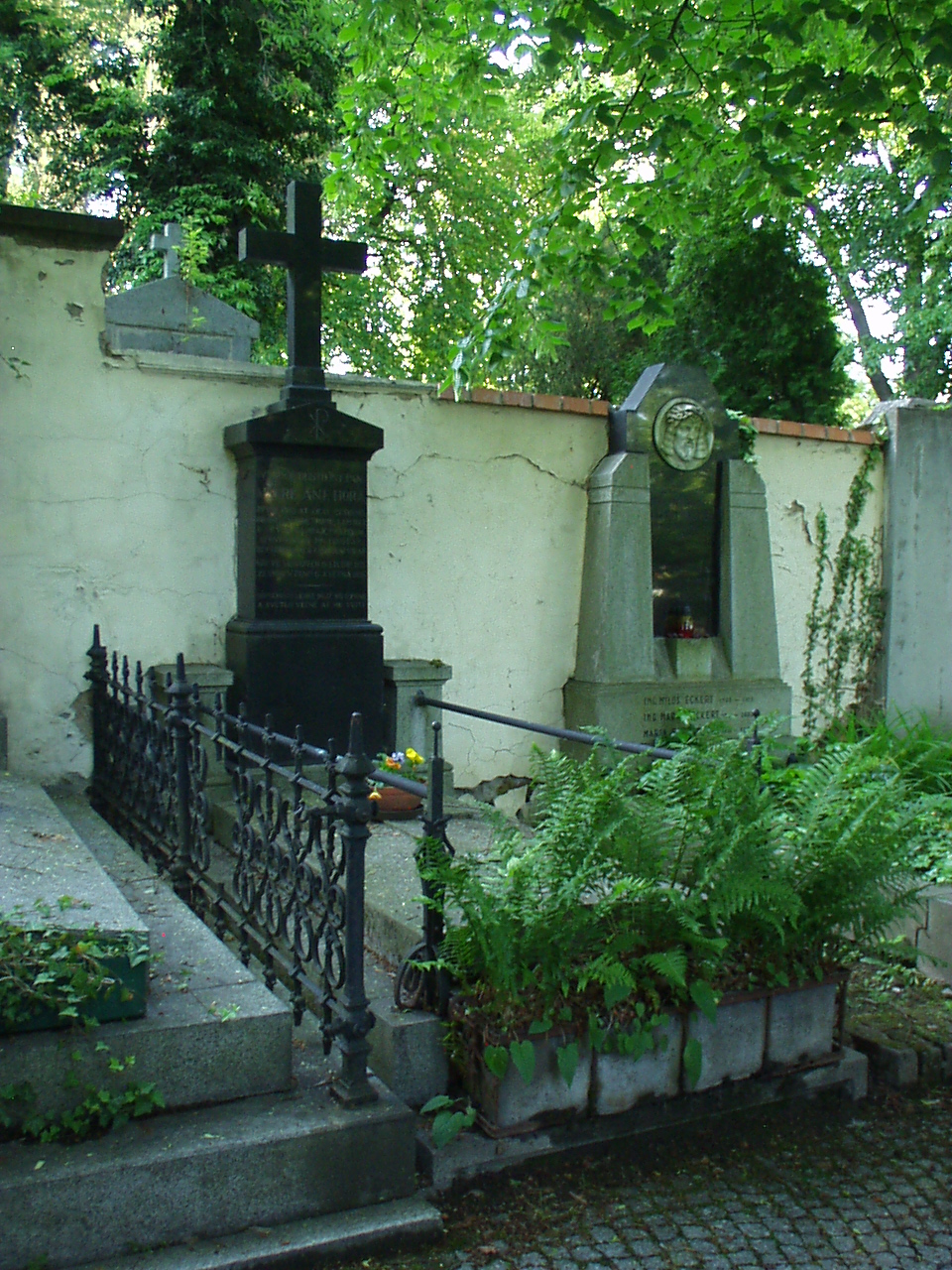 grave of monsignor Antonín Hora - Šárka cemetery in Prague